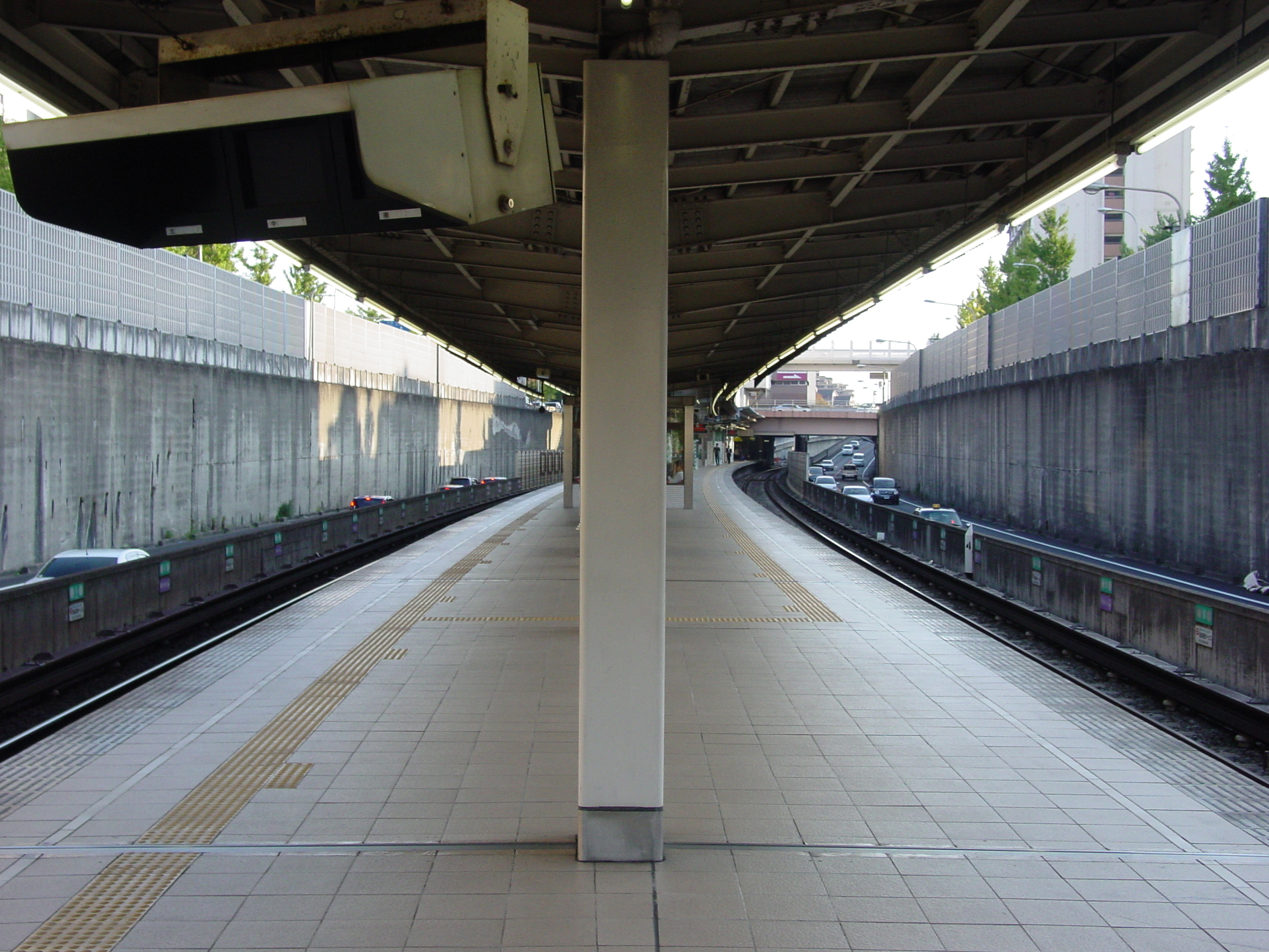 Momoyamadai Station